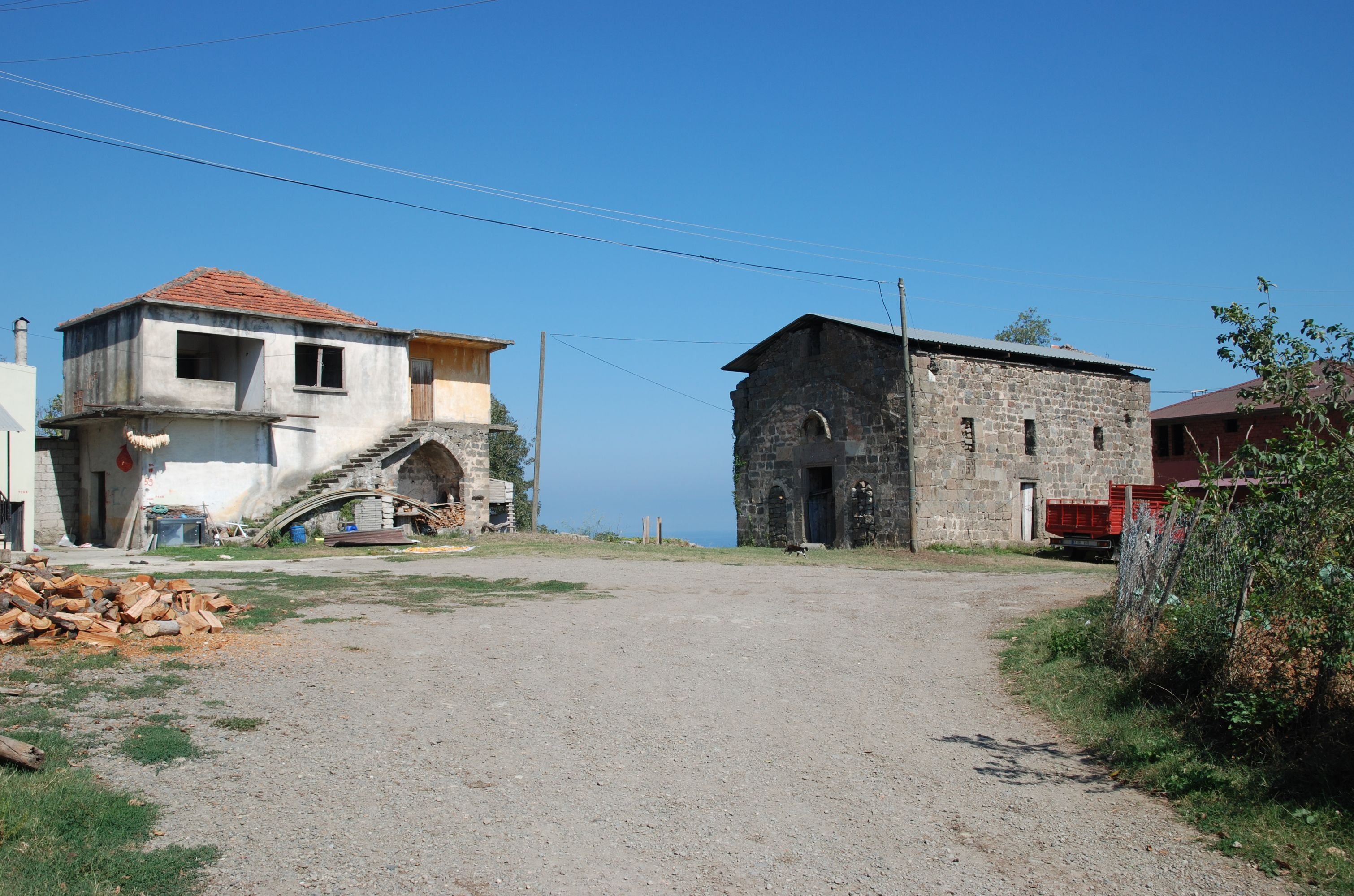 Kaymakli monastery in Trabzon, church and belfry (left)